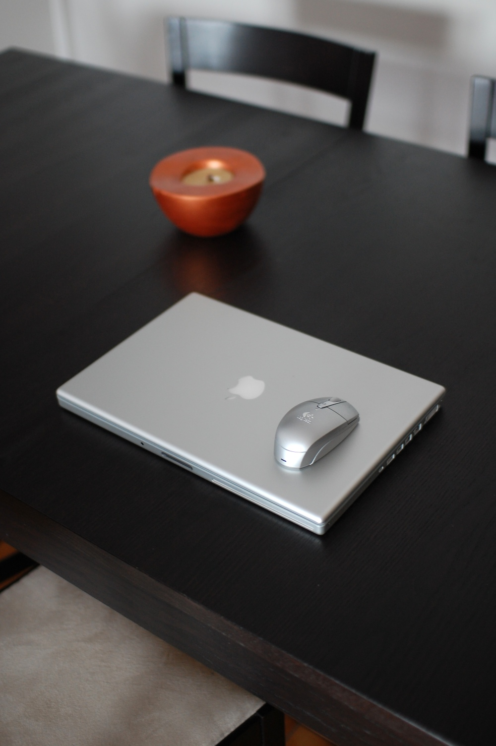 Portable Laptop computer Macbook Pro and Mouse